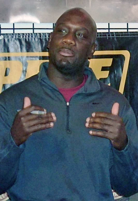 Meet the Cast of "Terminator: The Sarah Connor Chronicles" Signing and Screening Event, Golden Apple Comics on Melrose - Sat., Sept. 13, 2008